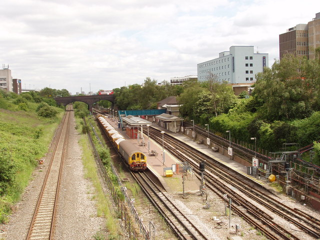 Central Line track maintenance, North Acton. On this bank holiday weekend this part of the Central Line was closed. Standing by the eastbound platform of North Acton station is a train with wagons of stone for the track. The rail track on the left is a surface railway which has no regular use. Photo from the Chase Road bridge, with the Victoria road bridge at the top of the photo. The light blue building on the right is a hotel, to its right are BBC rehearsal studios, both in Victoria Road.